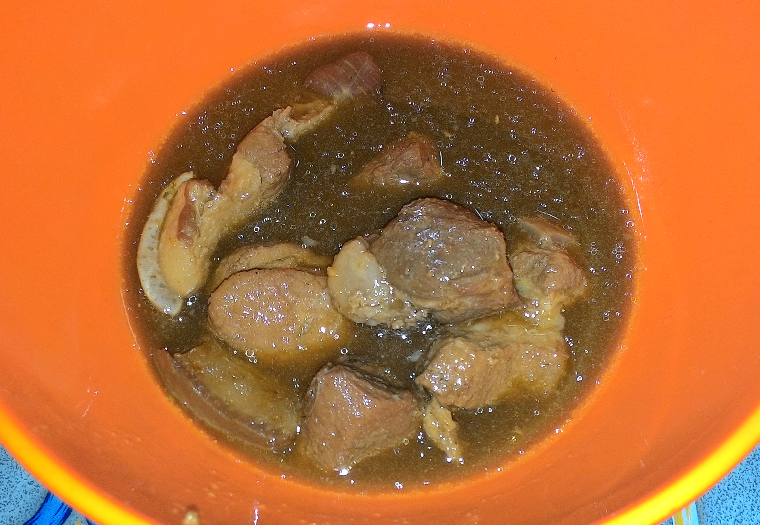 Babi kecap is a Chinese Indonesian braised pork with sweet soy sauce (kecap manis) and spices.